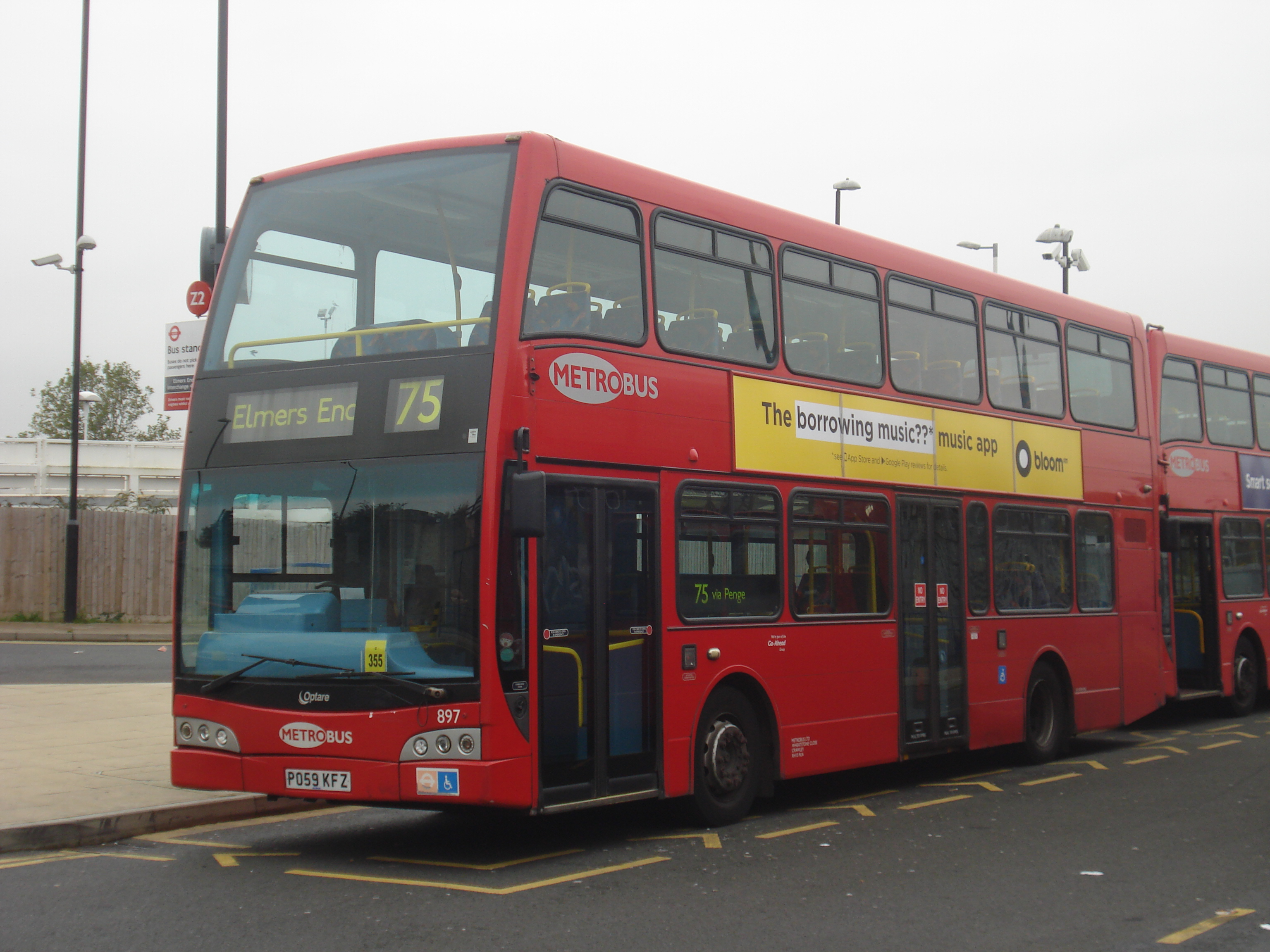 Metrobus 897 on Route 75, Elmers End